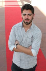 Claudio Sa - Imperia Festival